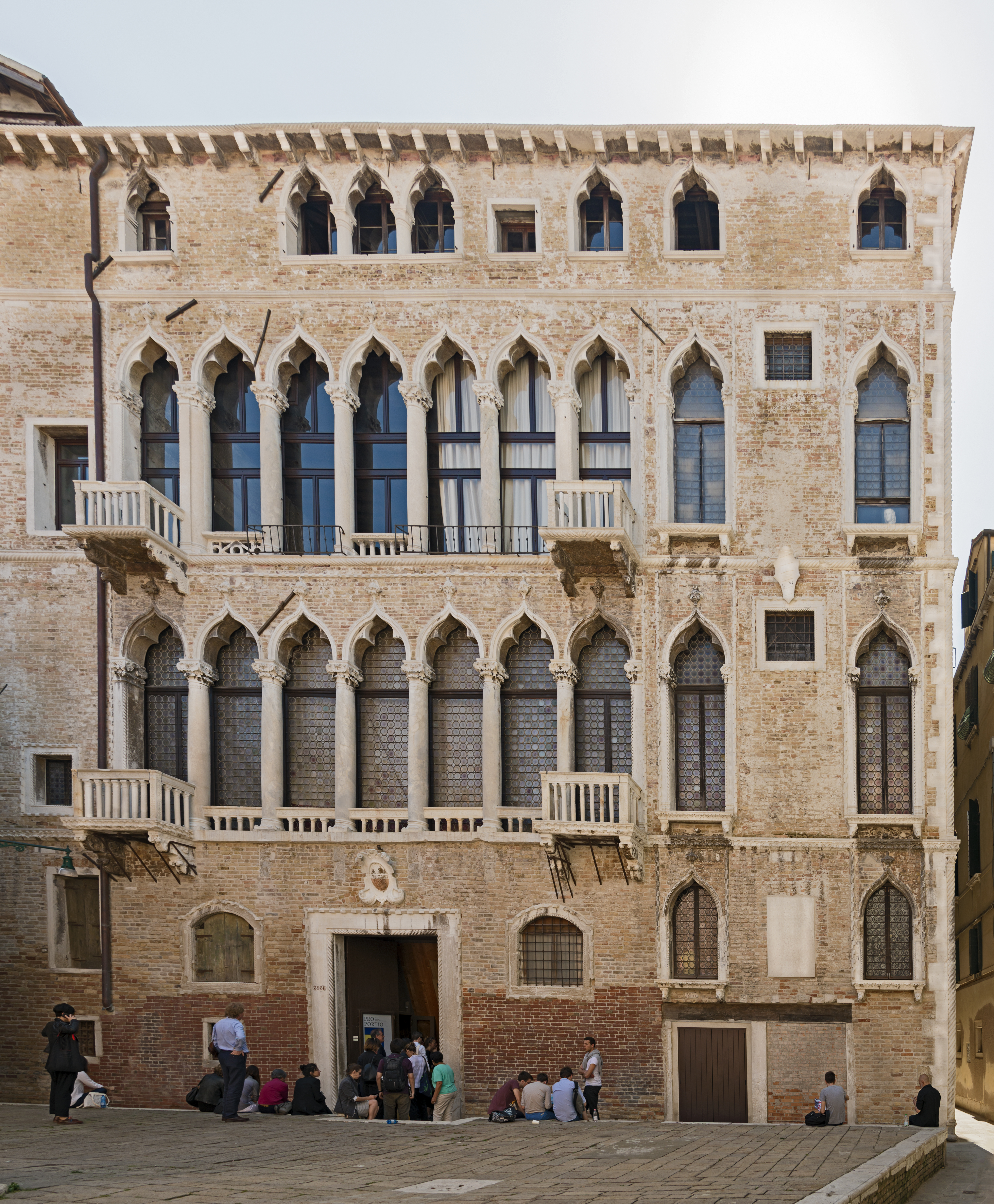 Palazzo Fortuny, già Pesaro Orfei in venice - Facade on Campo san Beneto.